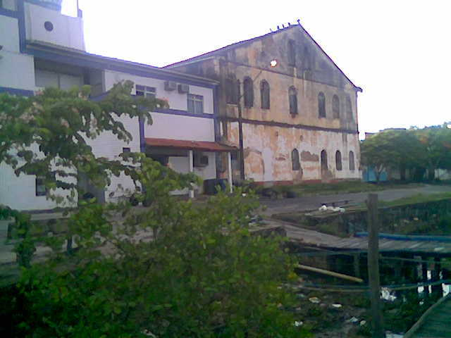 Prision of Alcobaça, Bahia